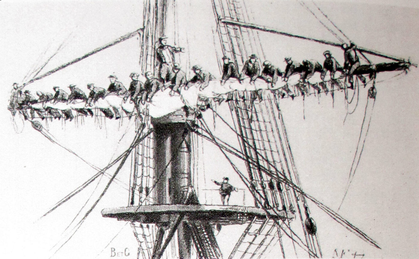 Sailors rigging the tops.